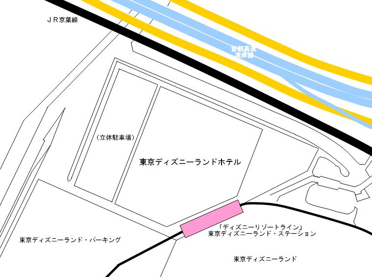 The map of Tokyo Disneyland Hotel at Tokyo Disney Resort